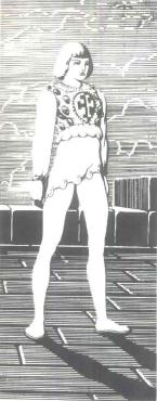 Fr. Rolfe's design for the cover of Don Tarquinio (1905).